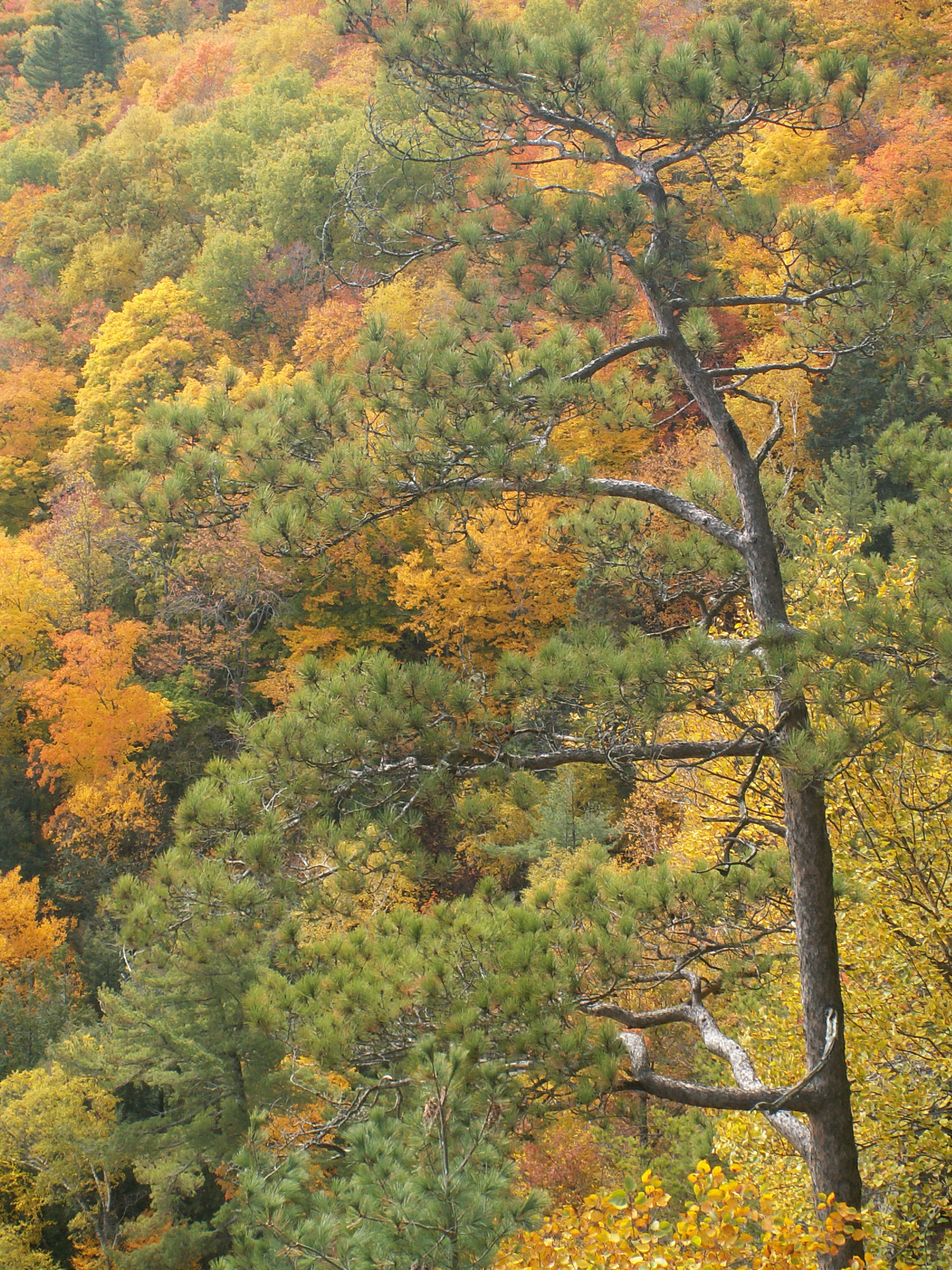 Red Pine (Pinus resinosa) on the edge of a cliff, Cap Tourmente National Wildlife Area, Quebec, Canada.